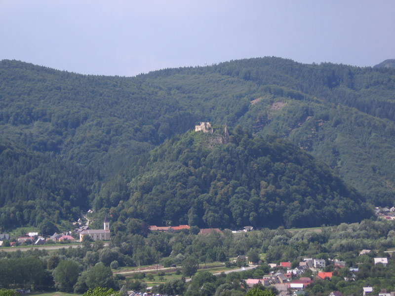 Photo of castle Povazsky hrad from year 2005. Photograph is taken and edited by Marian Matula from Povazska Tepla and it is published with his permission.